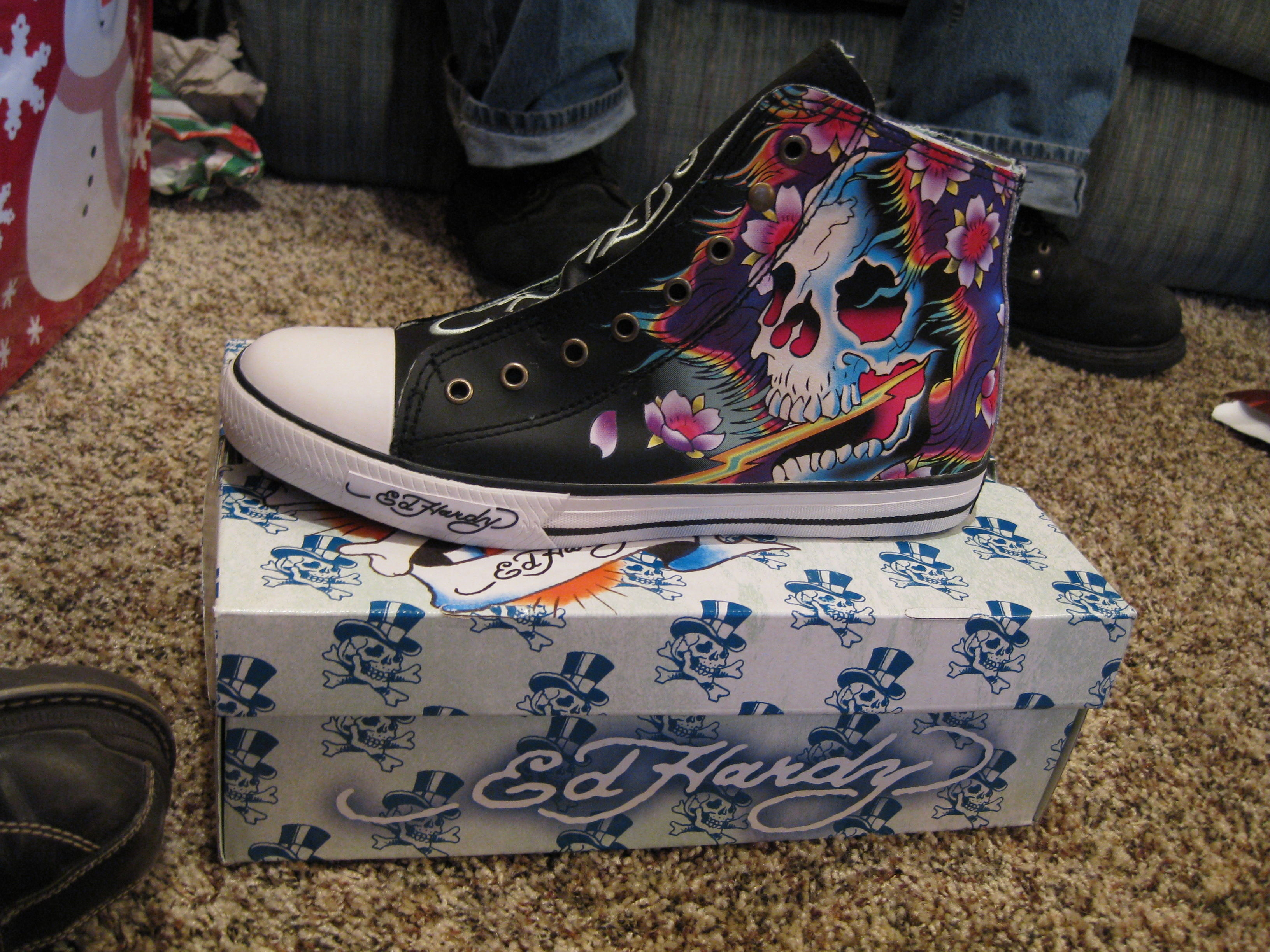 Ed Hardy running shoe circa 2008